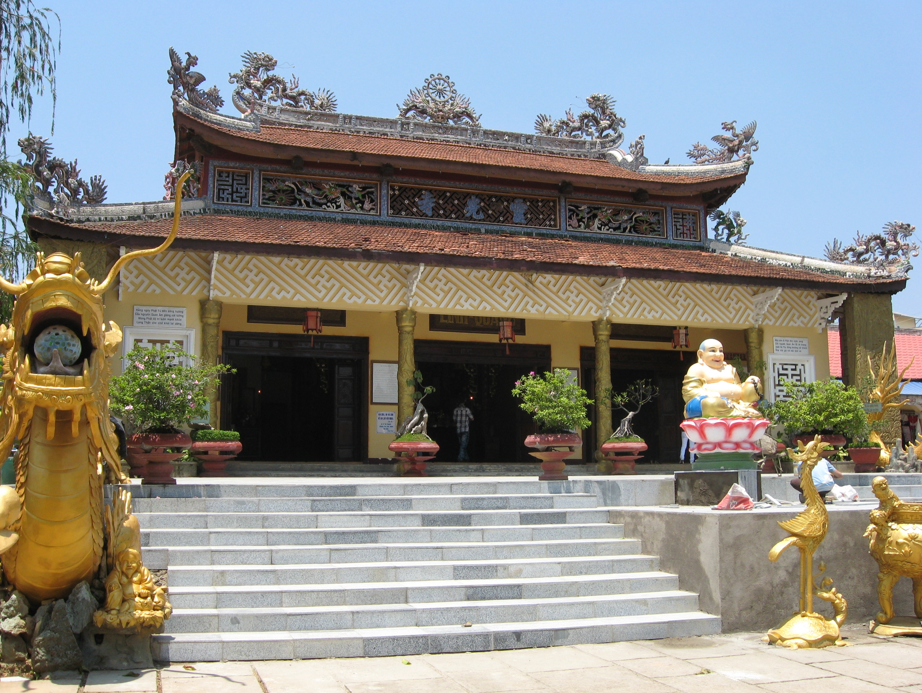 Linh Quang Pagoda